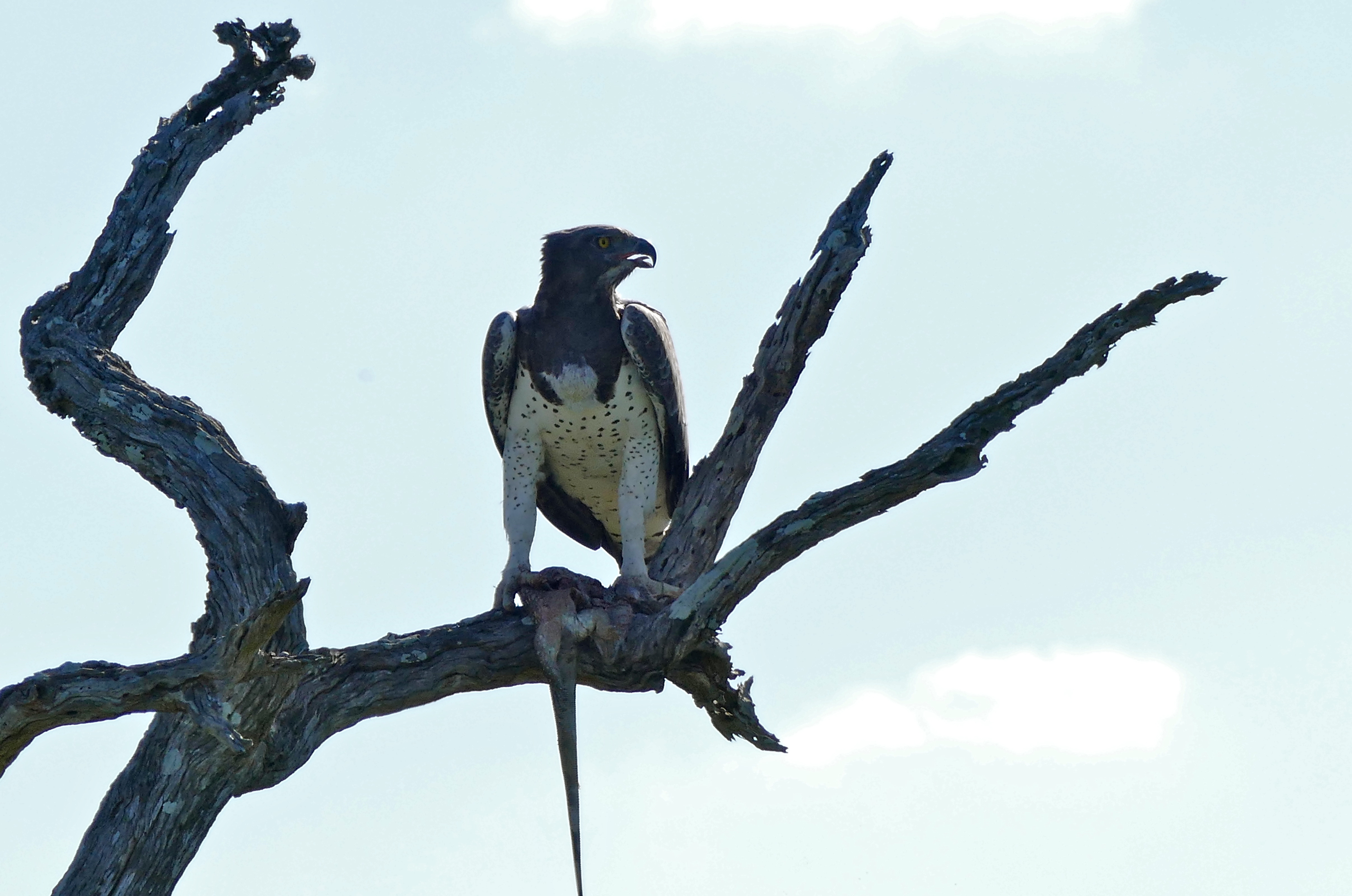 S28 Road South of Lower Sabie, Kruger NP, SOUTH AFRICA